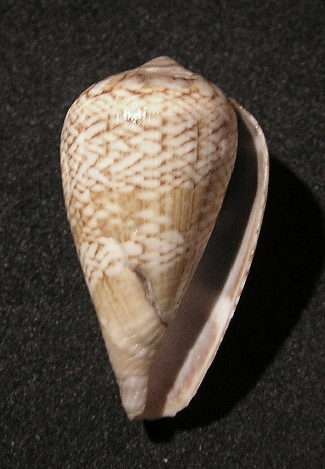 Conus cacao Ferrario, 1983 , Senegal